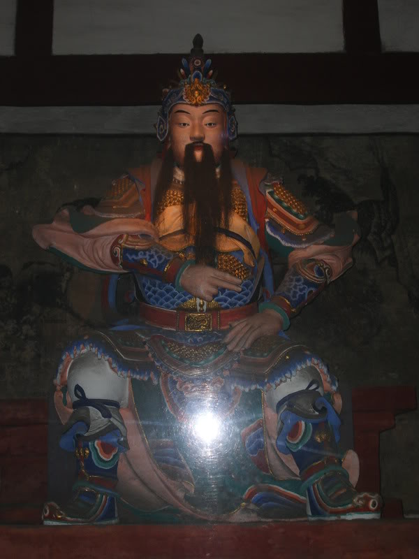 A statue of Jiang Wei in Zhuge Liang's temple in Chengdu, China. It was crafted in 1672.